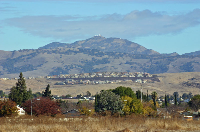 Mount Hamilton, California Nov 16, 2006 Taken by User:Elf Ellen Levy Finch, San Jose, CA